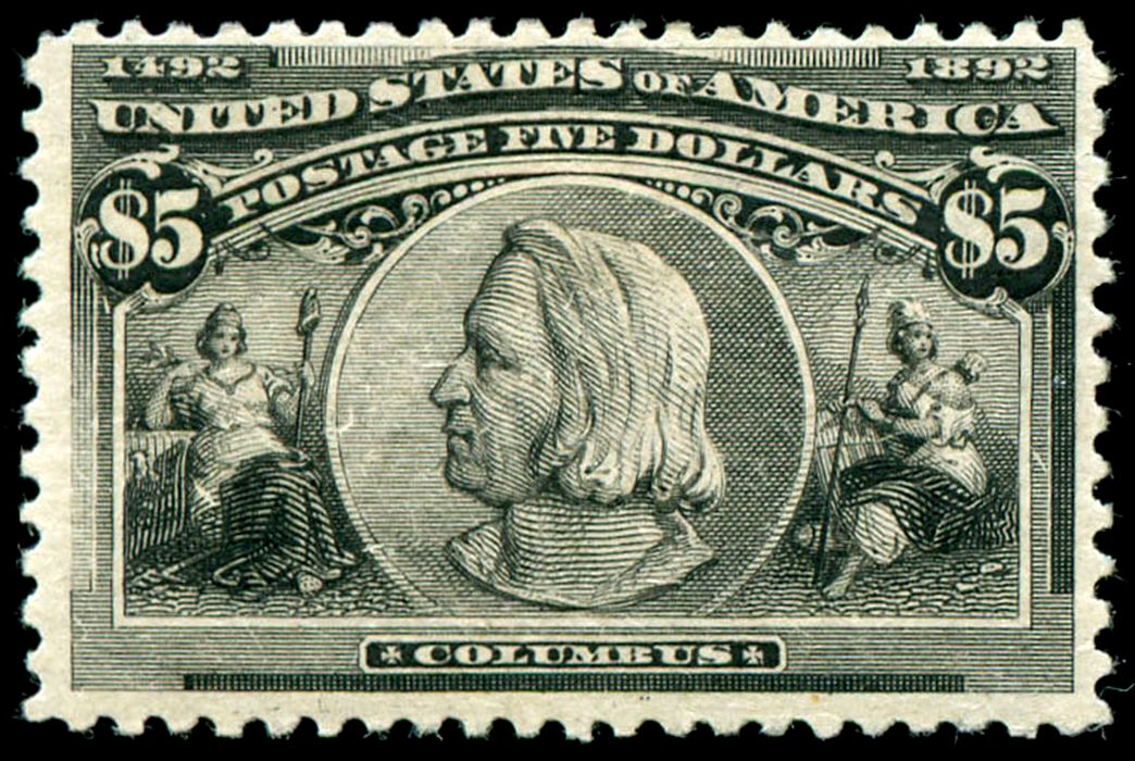 Columbus_1892_Issue-$5.jpg